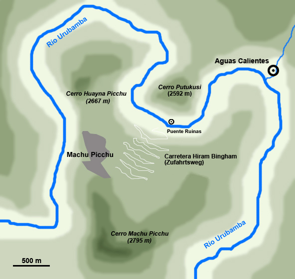 Machu Picchu Location